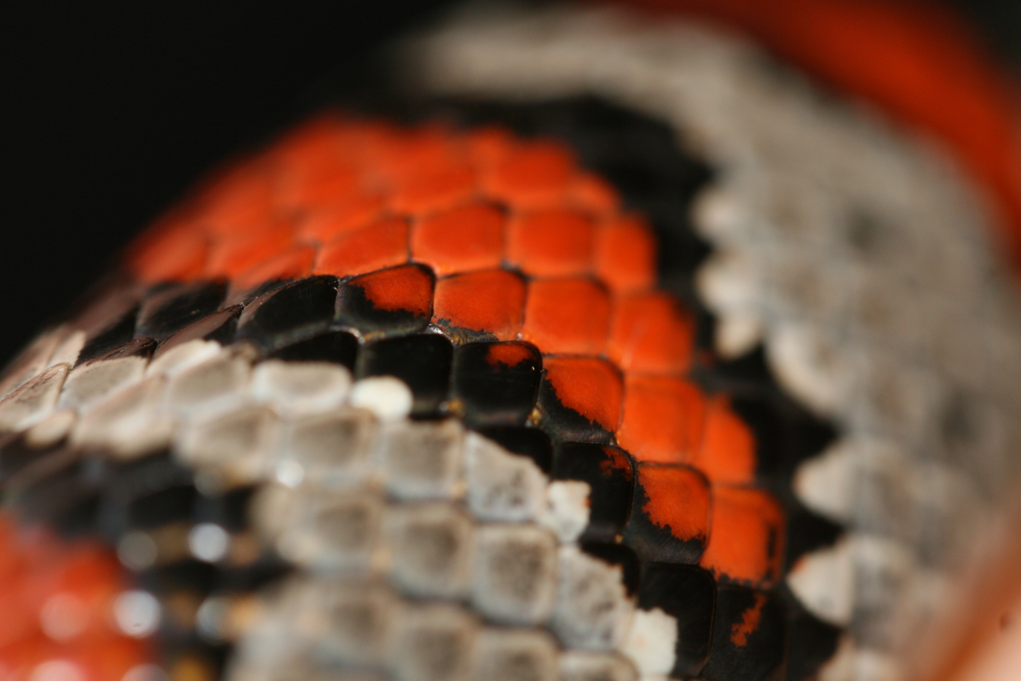 Lampropeltis Mexicana Greeri snake in private collection of Jakub Seif.